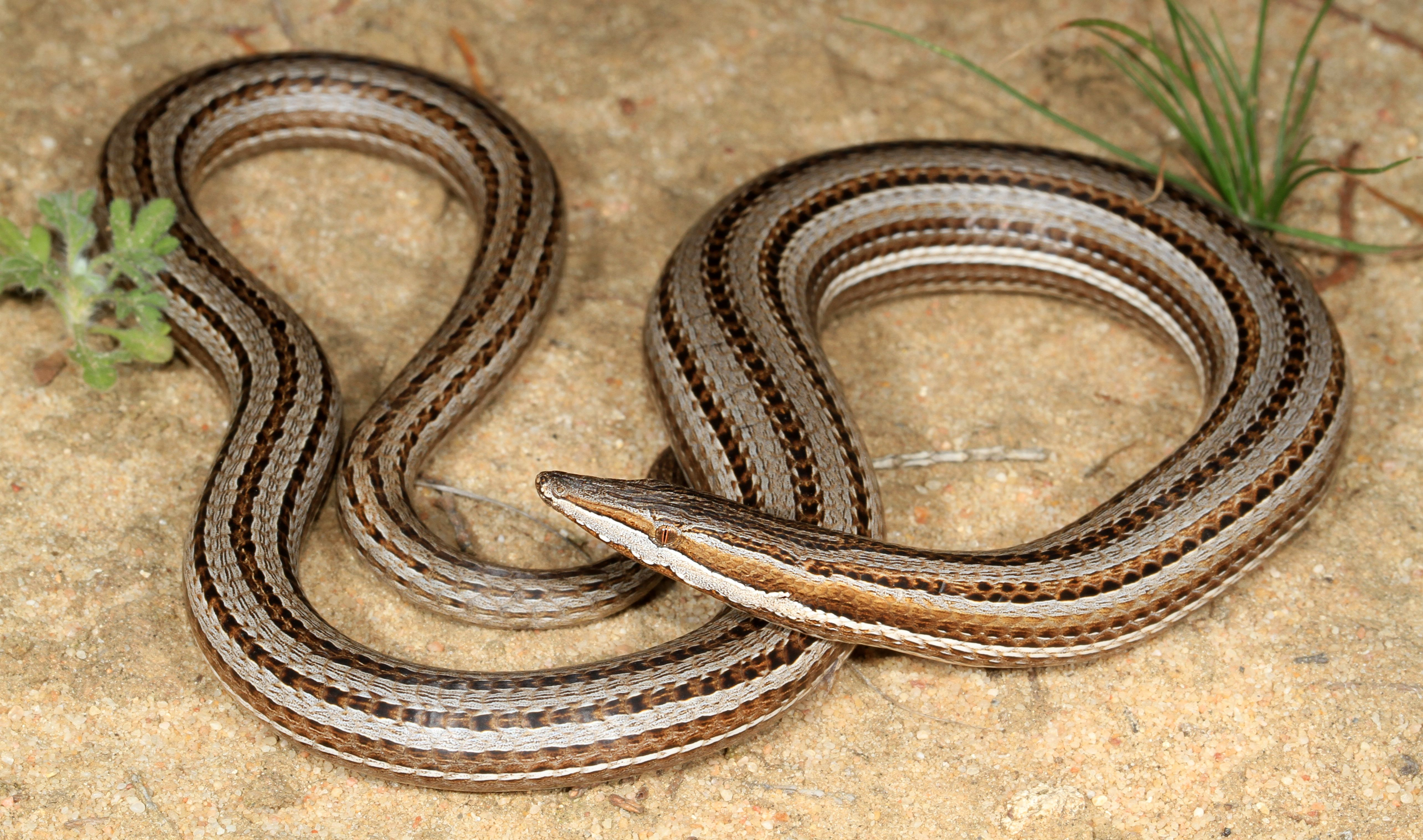 Burton's legless lizard on the ground.